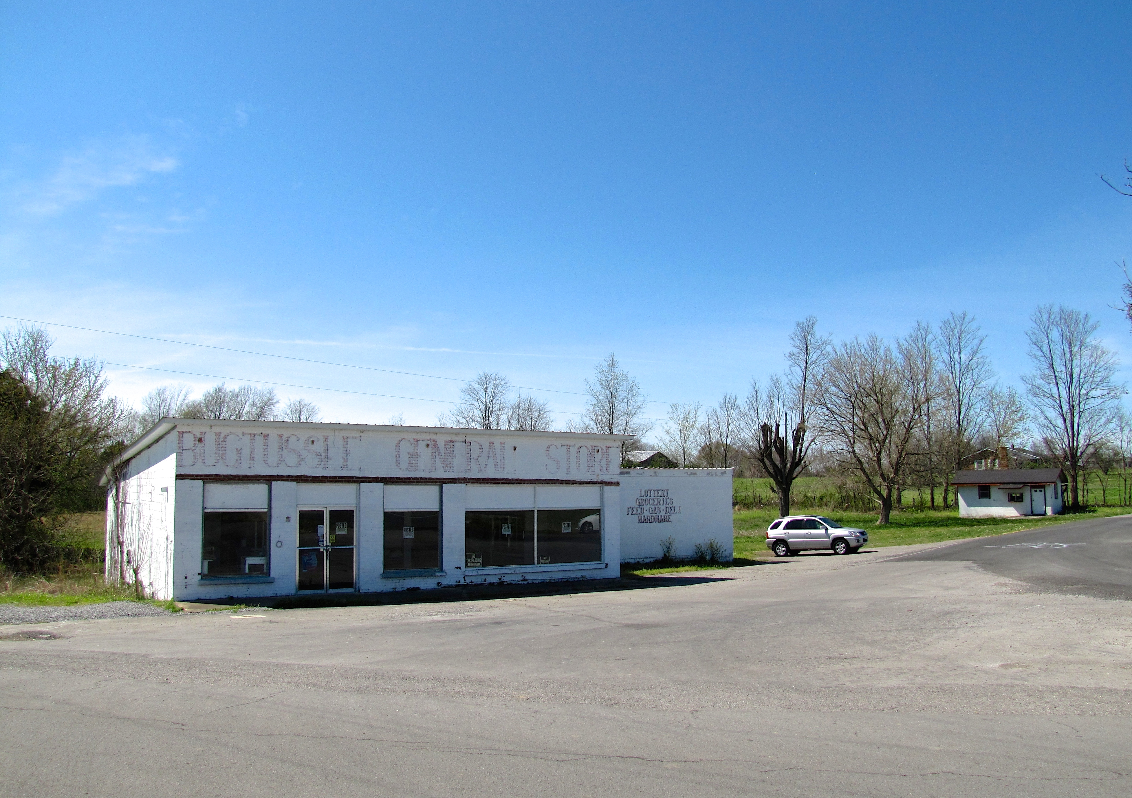 The now-defunct Bugtussle General Store in the Bugtussle community of Monroe County, Kentucky, United States. Kentucky Route 87 passes in the foreground.